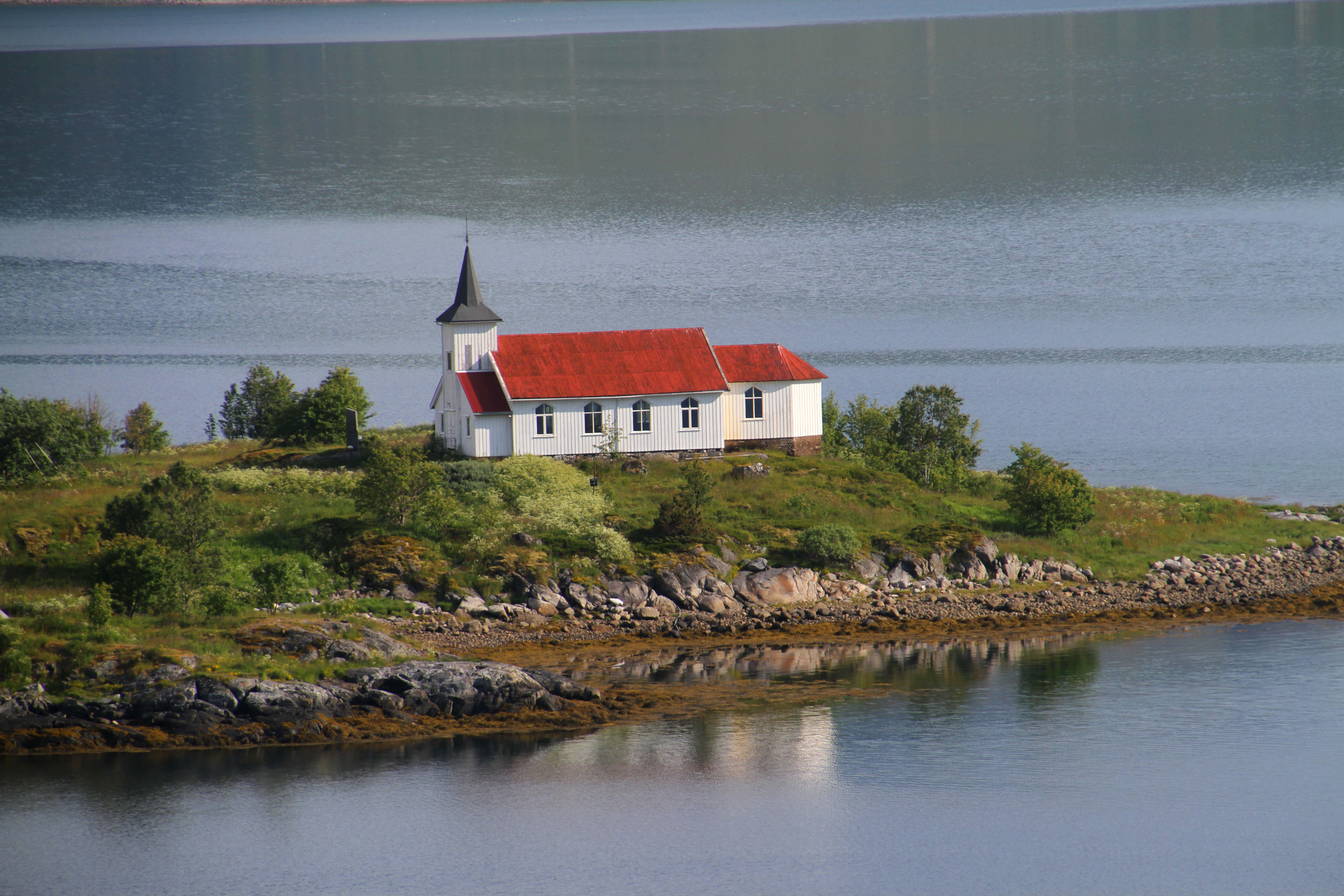 Church in Sildpollnes, Austvågøy, Lofoten, Norway